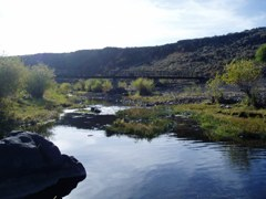 Camas Creek upstream of Magic Reservoir in Idaho.